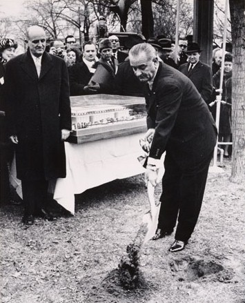 Roger Stevens (left) looks on as President Lyndon B. Johnson turns over the first shovel of dirt at the groundbreaking ceremonies for the Kennedy Center on December 2, 1964. Stevens worked tirelessly to raise the funds necessary for the Center while working simultaneously as chair of the National Endowment for the Arts. Johnson autographed this photograph to Stevens.